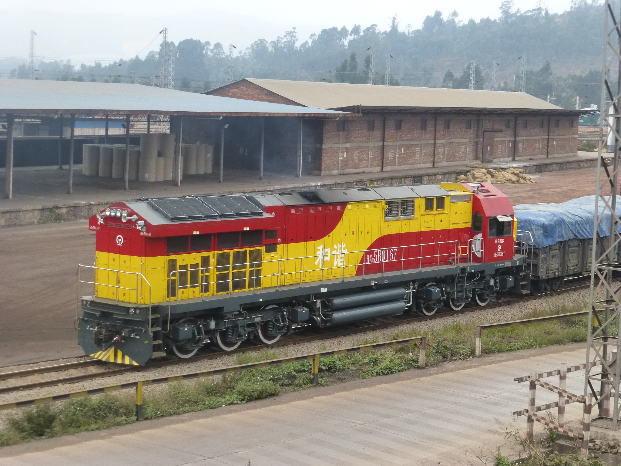 A freight train in Yuxi South Station, a freight railway station south of Yuxi City, Yunnan.